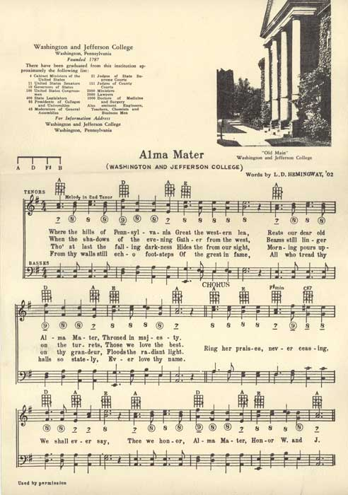 Alma Mater of Washington & Jefferson College. Words by L.D. Hemingway, Class of 1902.